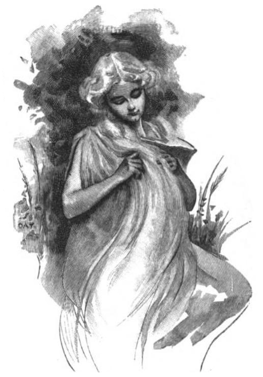 The goddess Sif holds her golden hair. Grain grows behind her. The image is captioned as "Sif Was Queen of the Fields" and appears on page 105. The artist appears to be uncredited, but the letters "DAY." appear to the center left of the image.